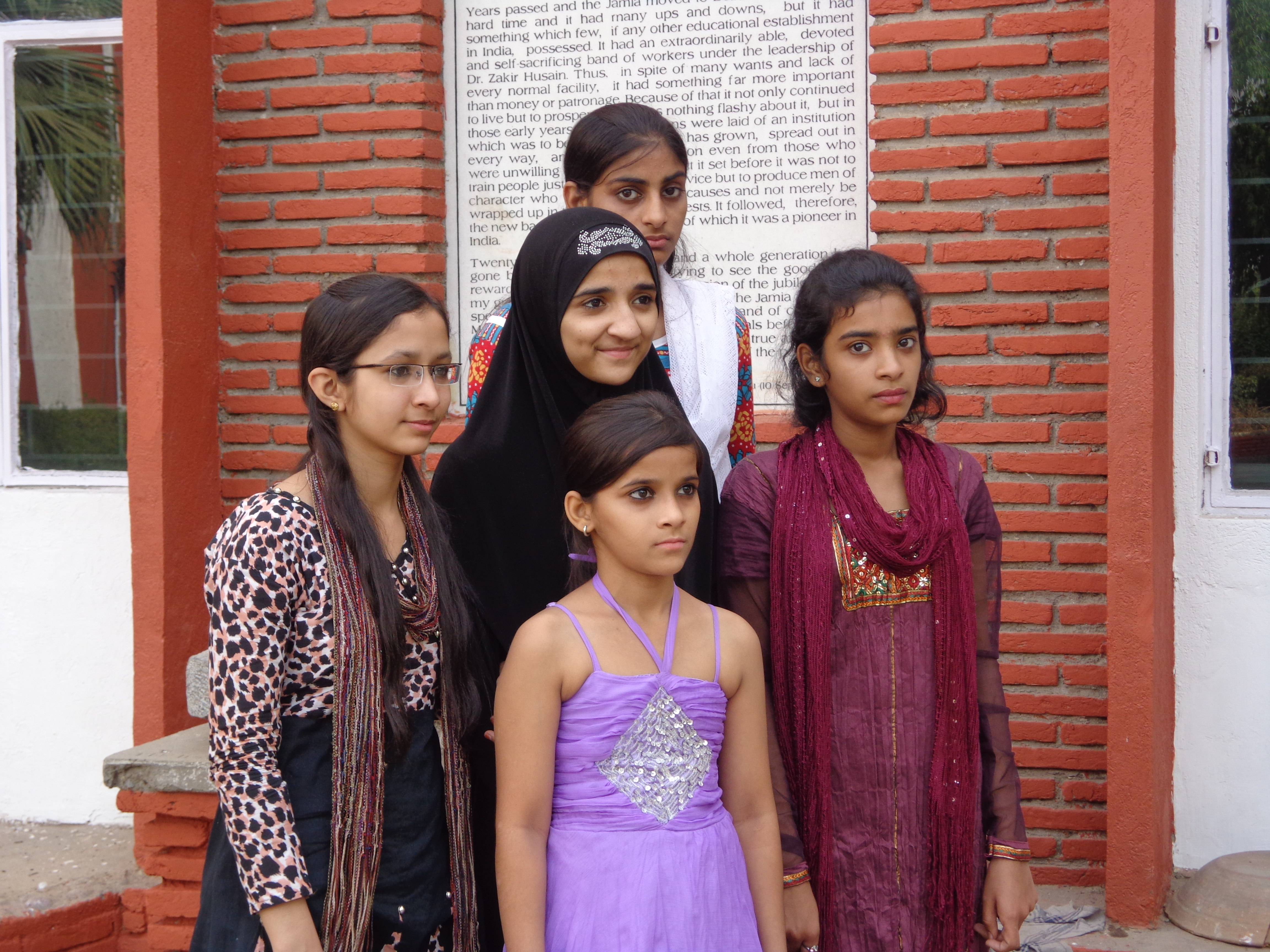 Girls outside Yasser Arafat Hall, Jamia Millia Islmia, New Delhi after being felicitated by the VC, Najeeb Jung.